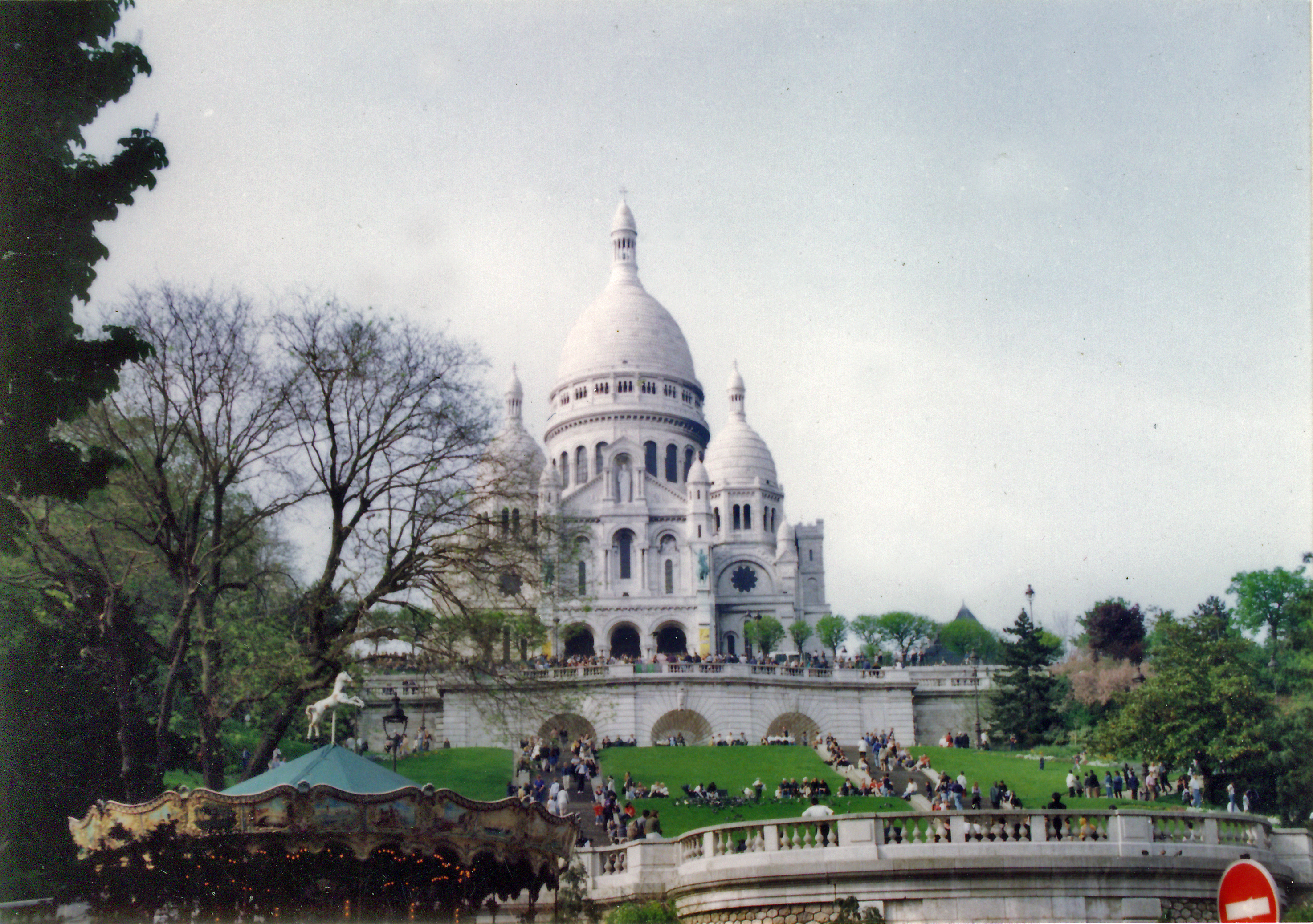 Basilica of the Sacred Heart of Paris, 2000